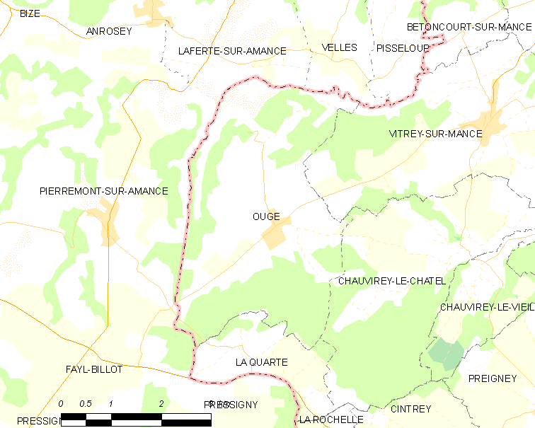 Map of French municipality